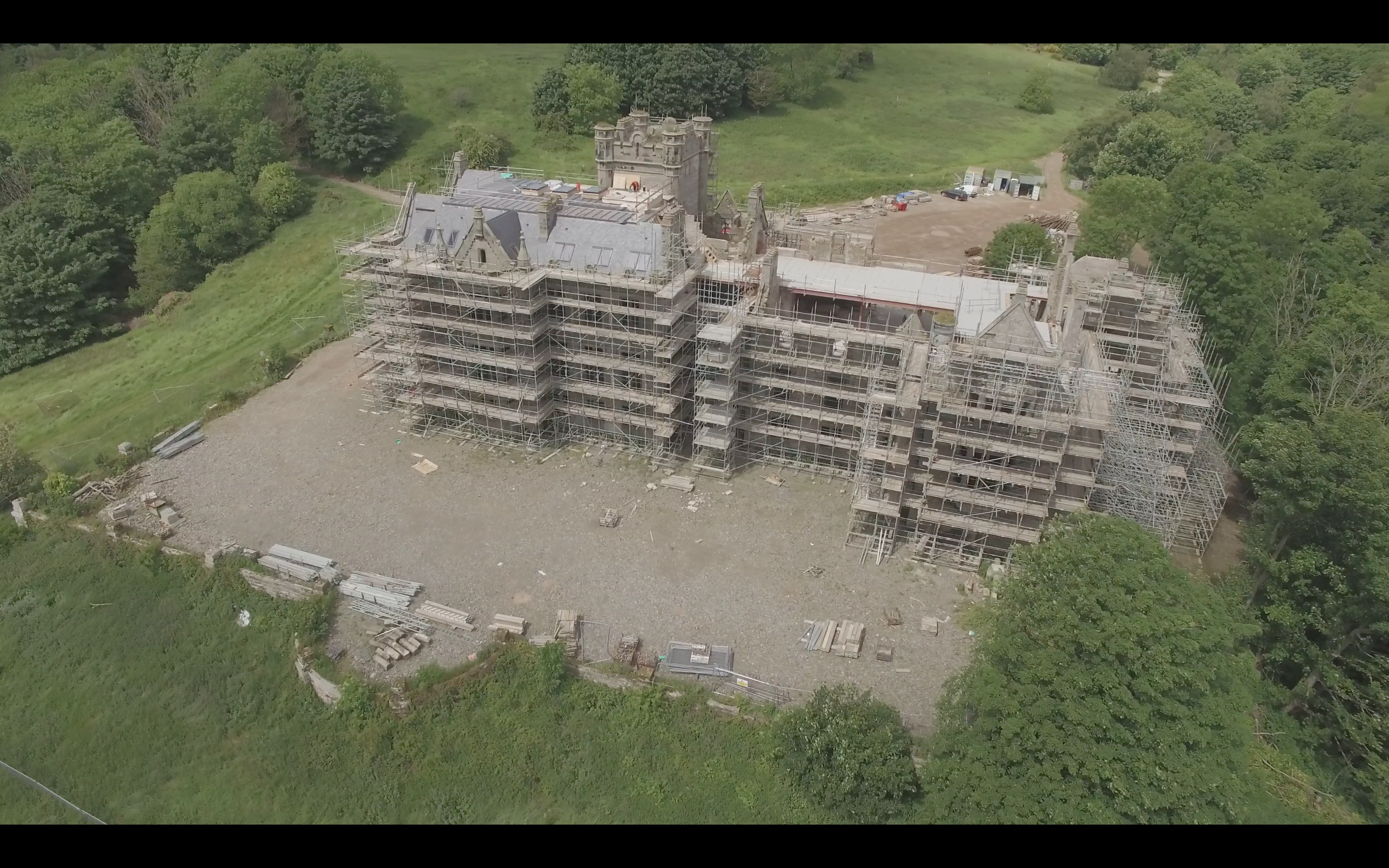 Ury House currently in the advanced stages of redevelopment.